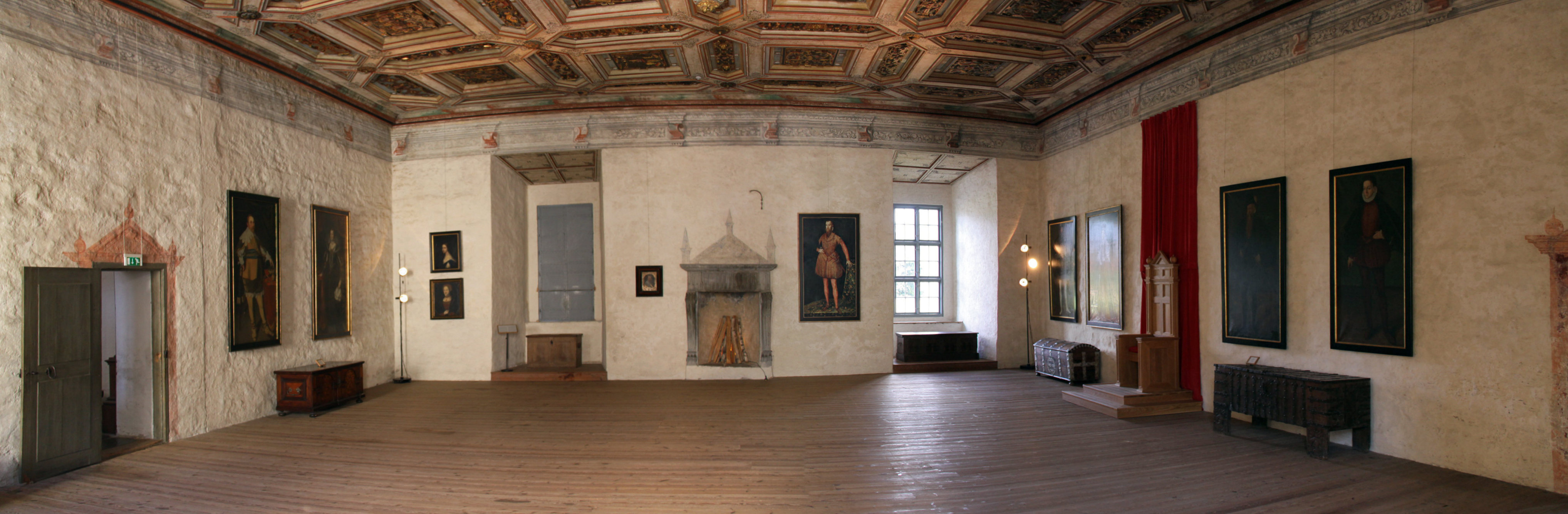 Kalmar, Sweden: the castle, Golden Hall, with decorated ceillings from 1576.